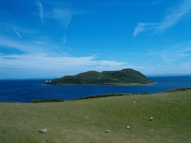 Grazing sheep in the foreground of Island Davaar.